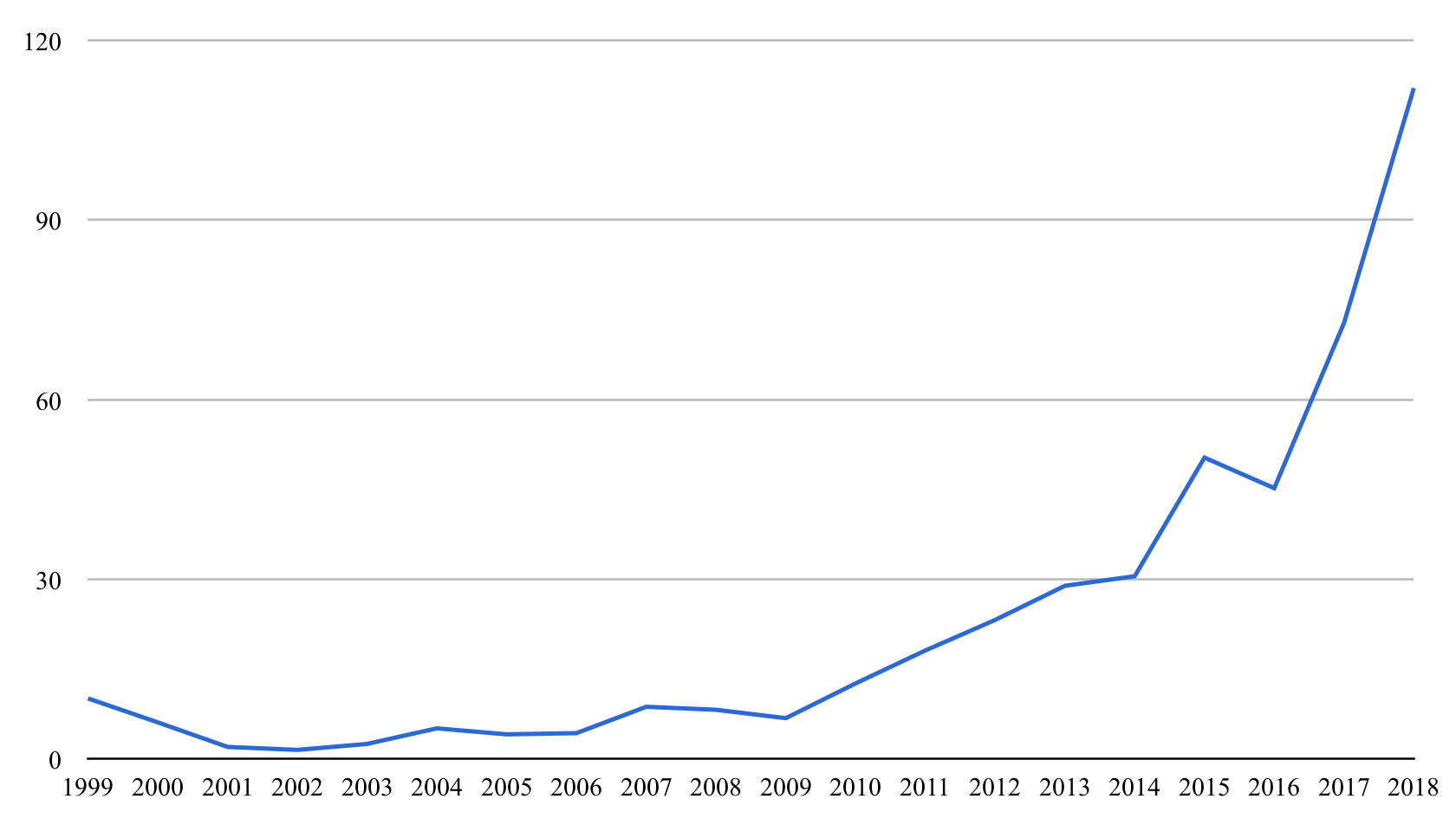 This chart is a graphical representation of the net worth of Jeff Bezos, founder of Amazon and Blue Origin. It was calculated with start-of-year (otherwise known as publication date) estimates by Forbes magazine. All the currency figures are in the U.S. dollar standard and are not adjusted for inflation, i.e. they are nominal values.